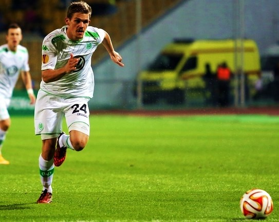 Sebastian Jung